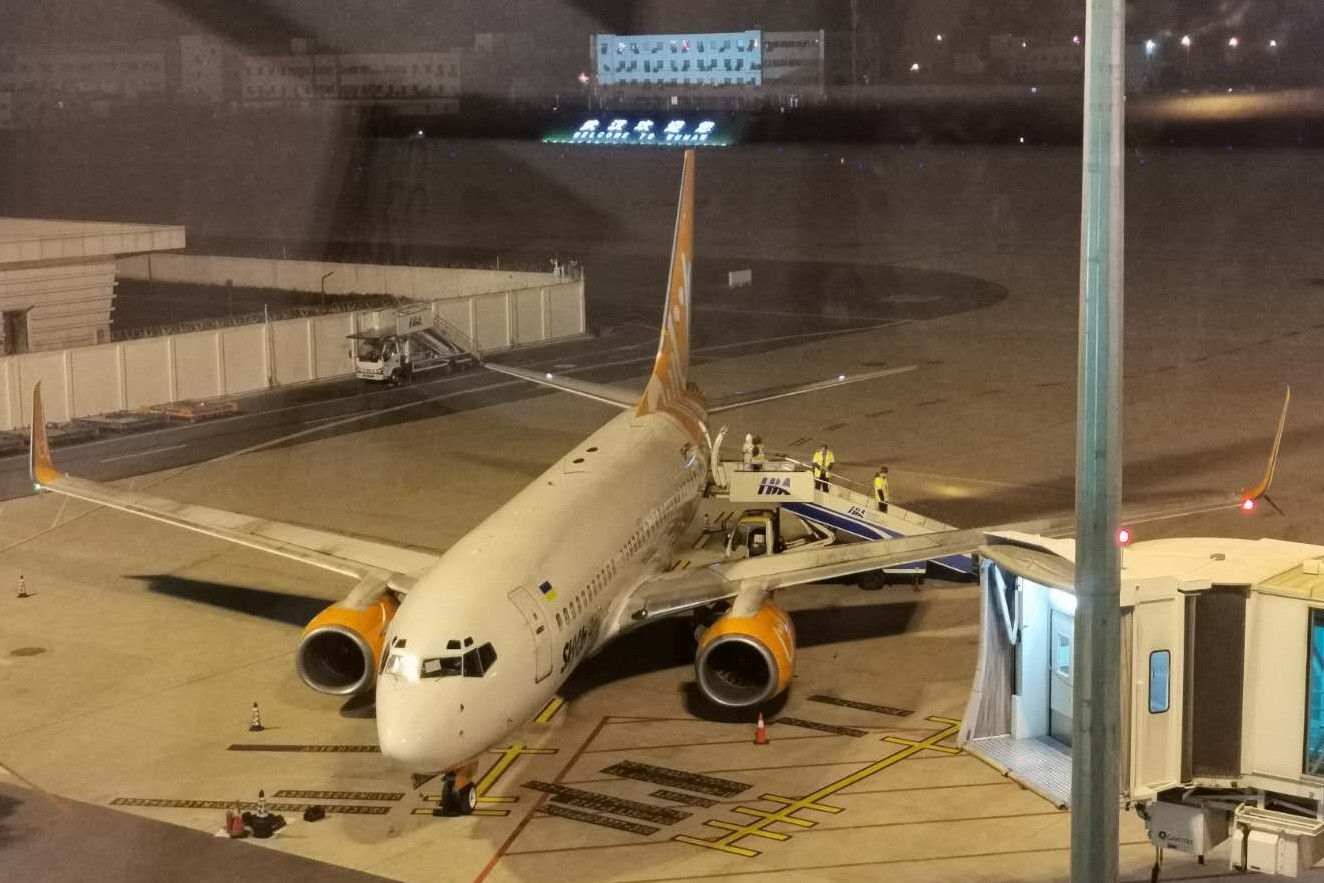 Evacuation of citizens of Ukraine and foreigners from Hubei province